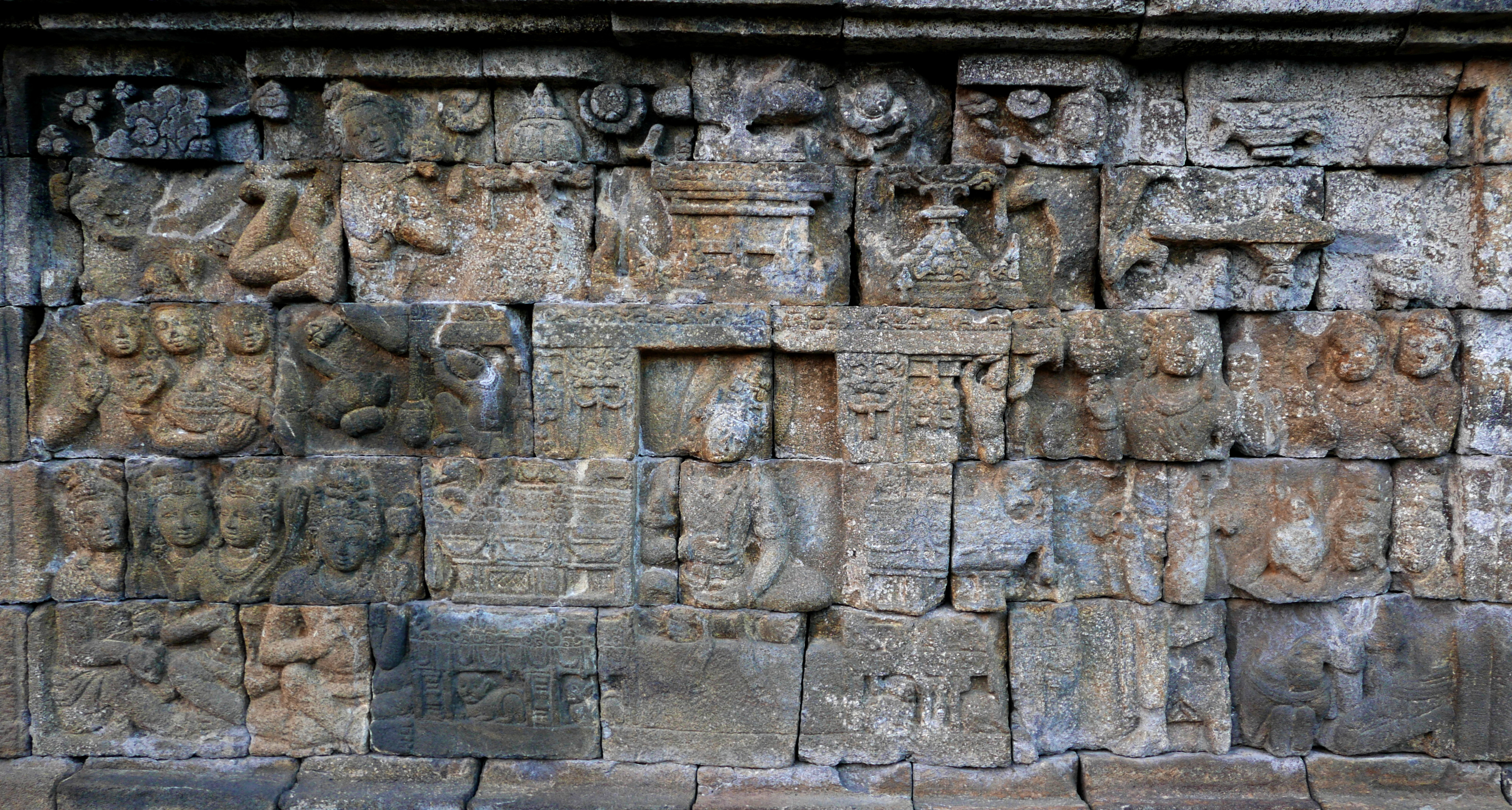 057 N Maitreya Preaching, photograph by Anandajoti Bhikkhu